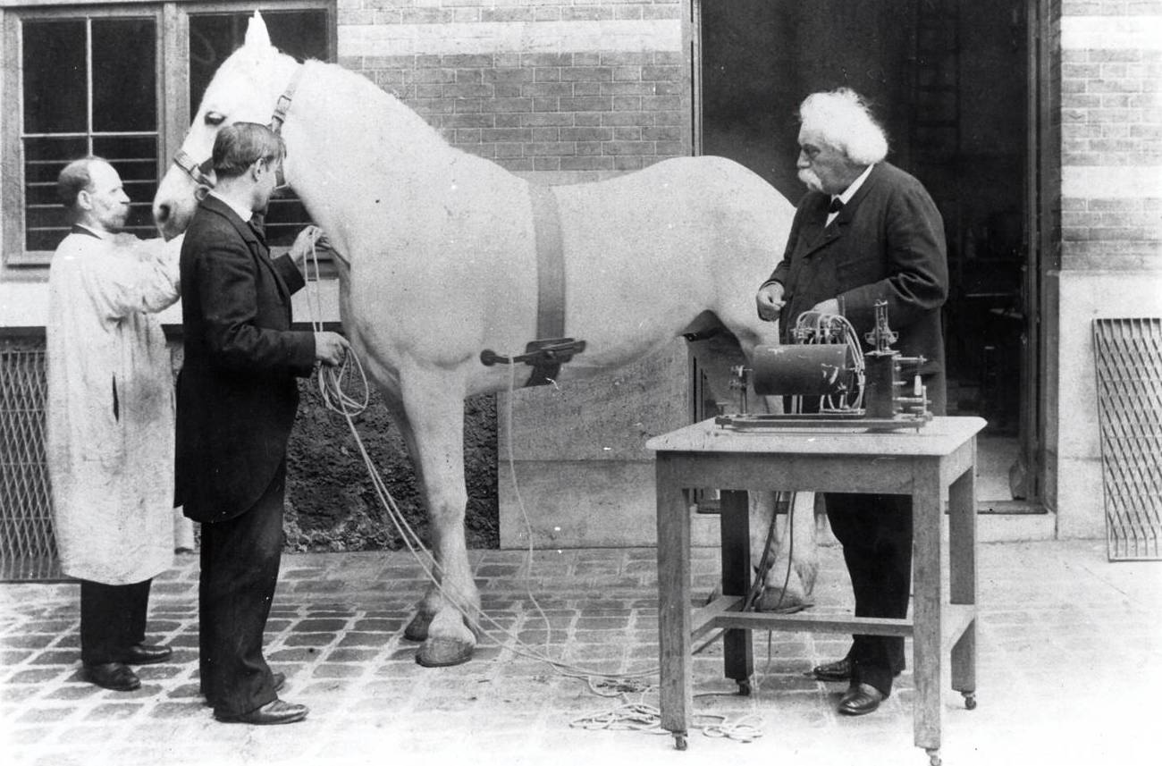 Auguste Chauveau (1827-1917) and assistants performing heart catheterisation on a horse.